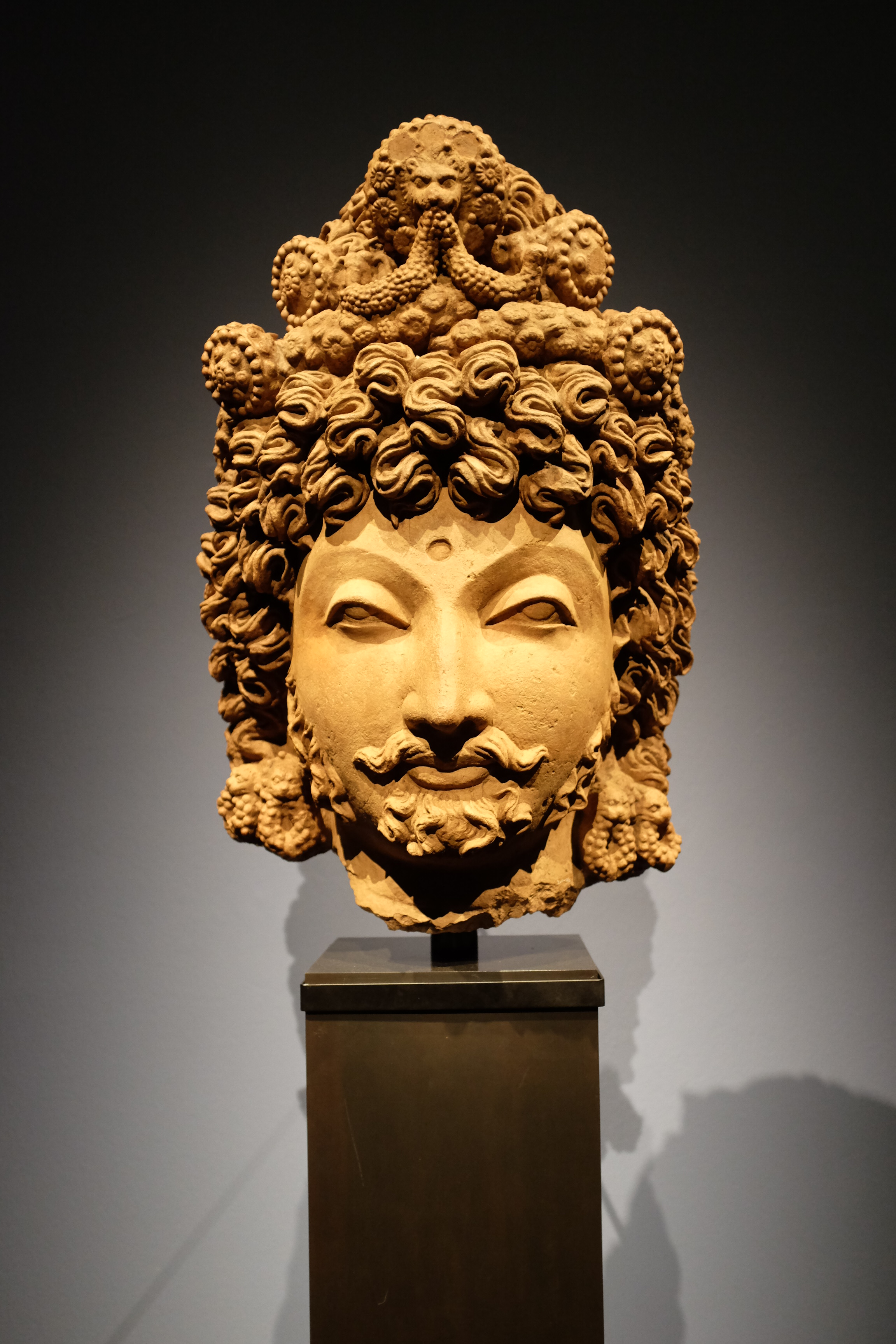 Head of a bodhisattva, Gandhara, around 4th century, terracotta, 85 cm in height, Asian Civilisations Museum